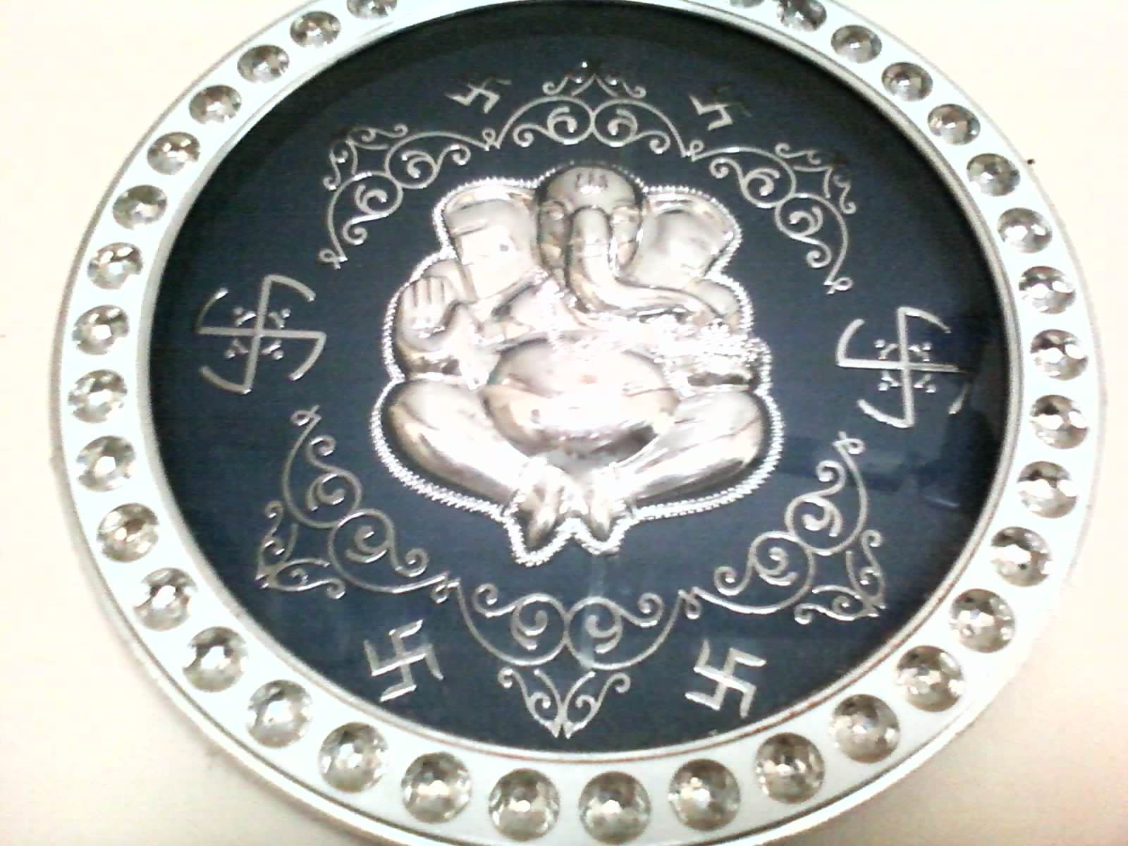 The Ganesha is a popular diety in India and southeast asia.